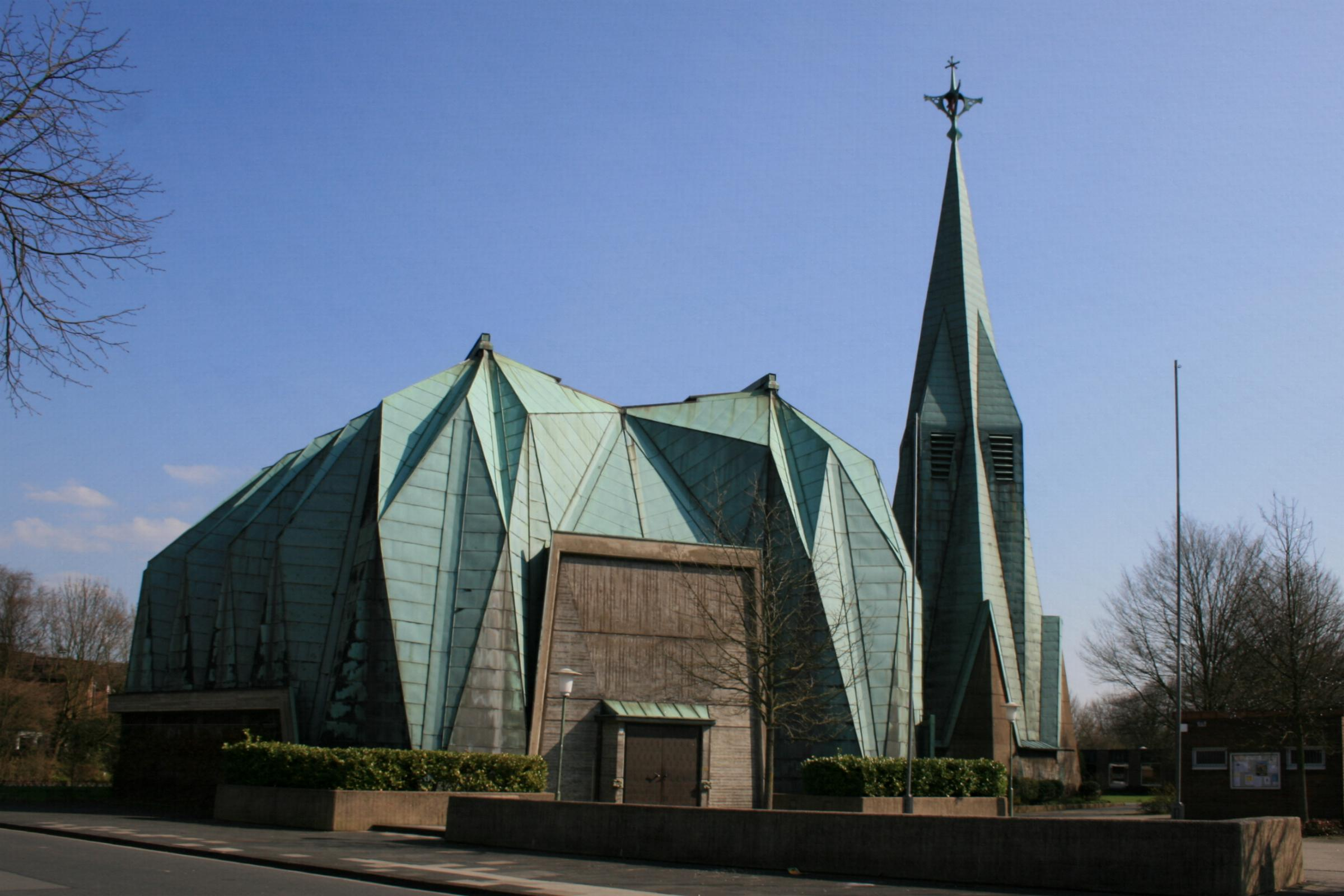 This is a photograph of an architectural monument.